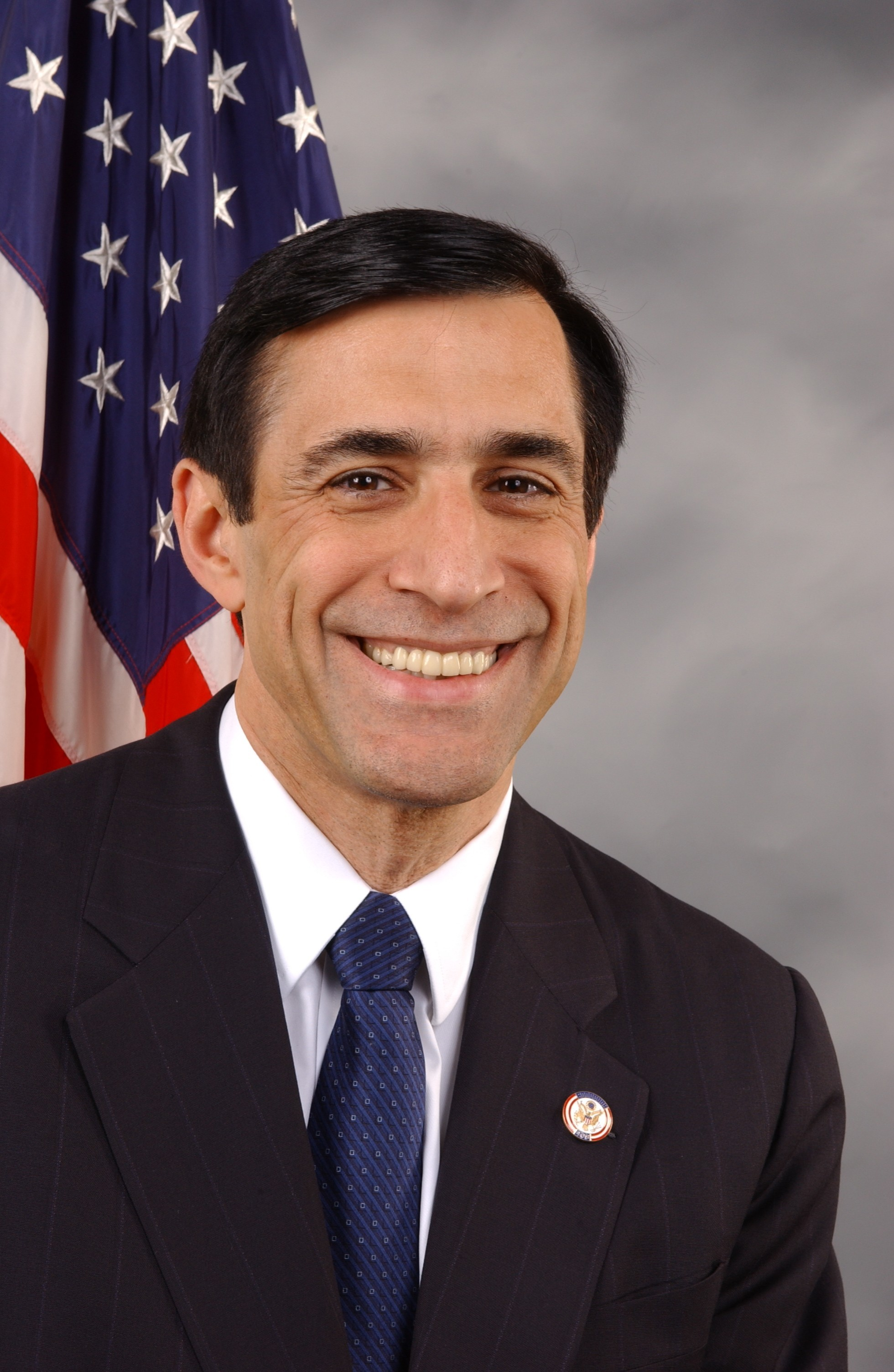 Darrell Issa, member of the United States House of Representatives.